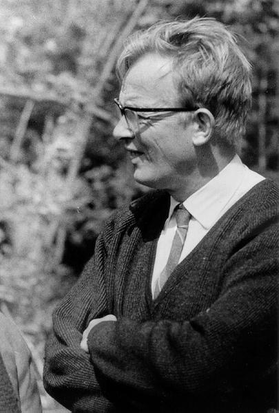 Dutch astronomer Henk van de Hulst at the Nederlandse Astronomenconferentie, Dalfsen, May 1967.